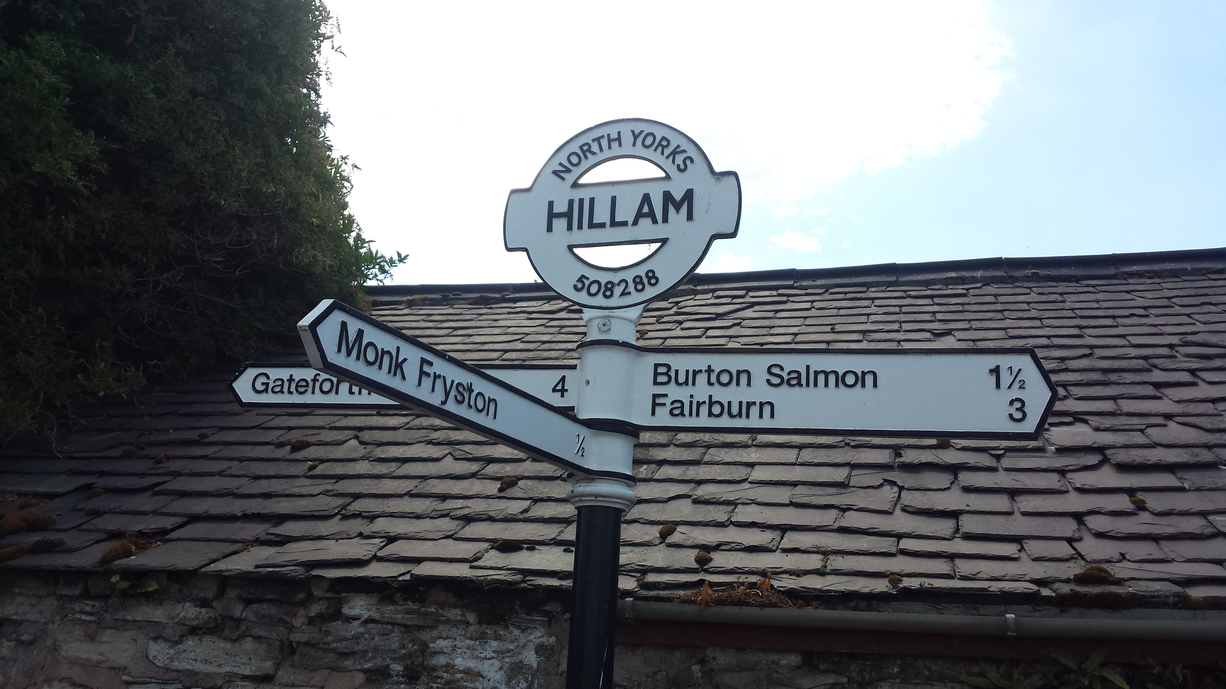 Hillam Village Sign